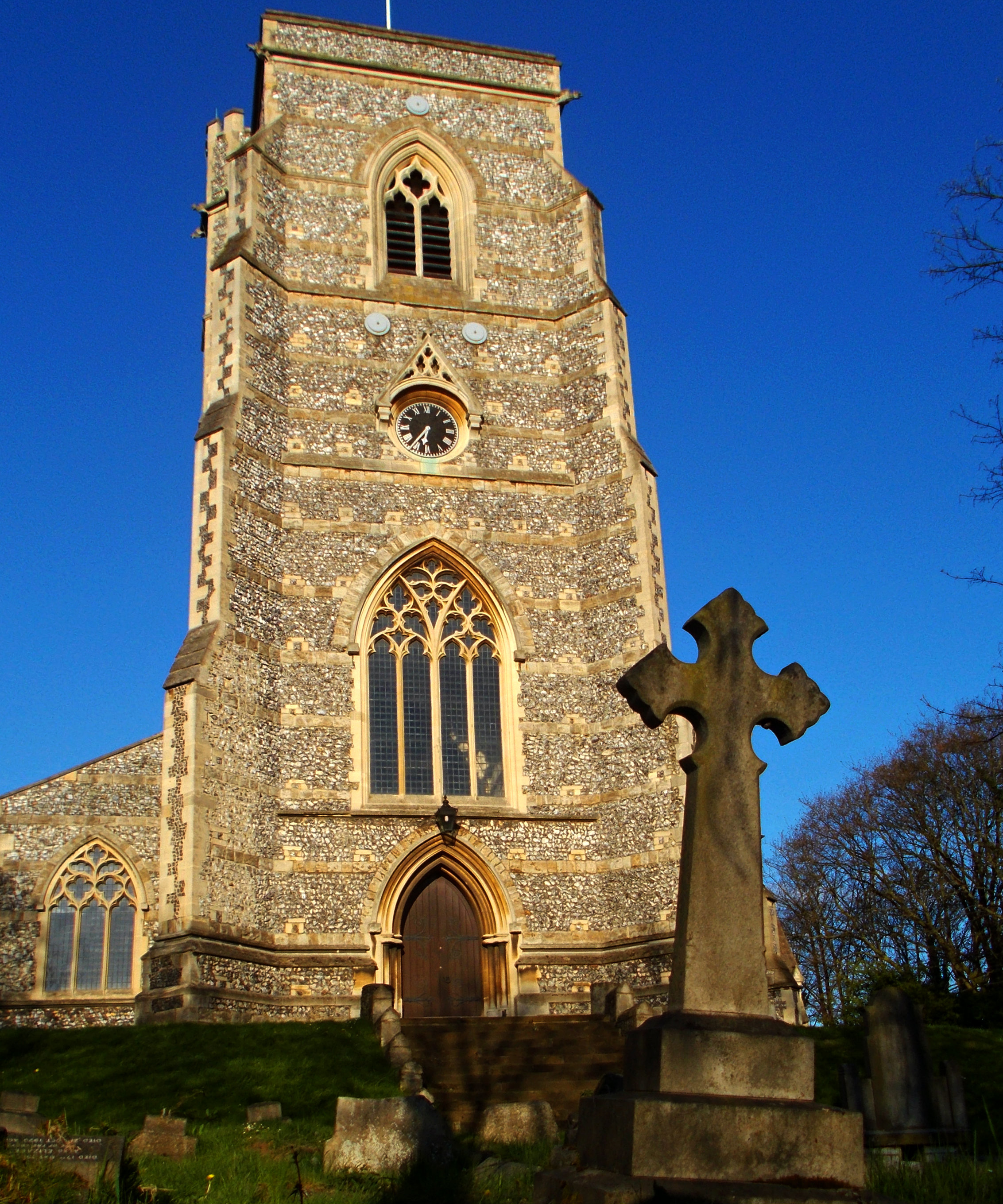 All Saints' parish church, All Saints' Road, Sutton, south London (formerly Surrey), seen from the west